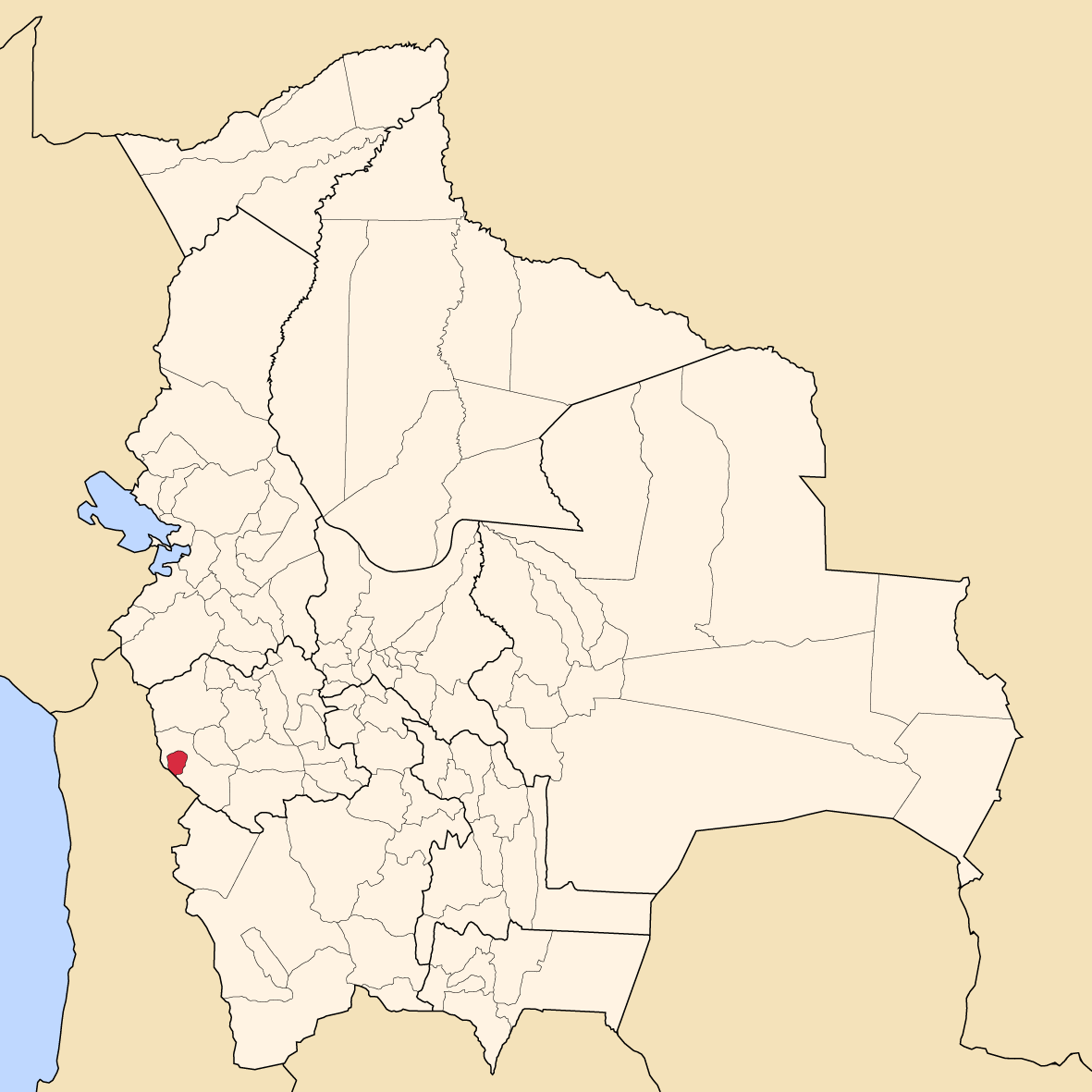 Map of Bolivia showing Puerto de Mejillones province, Oruro